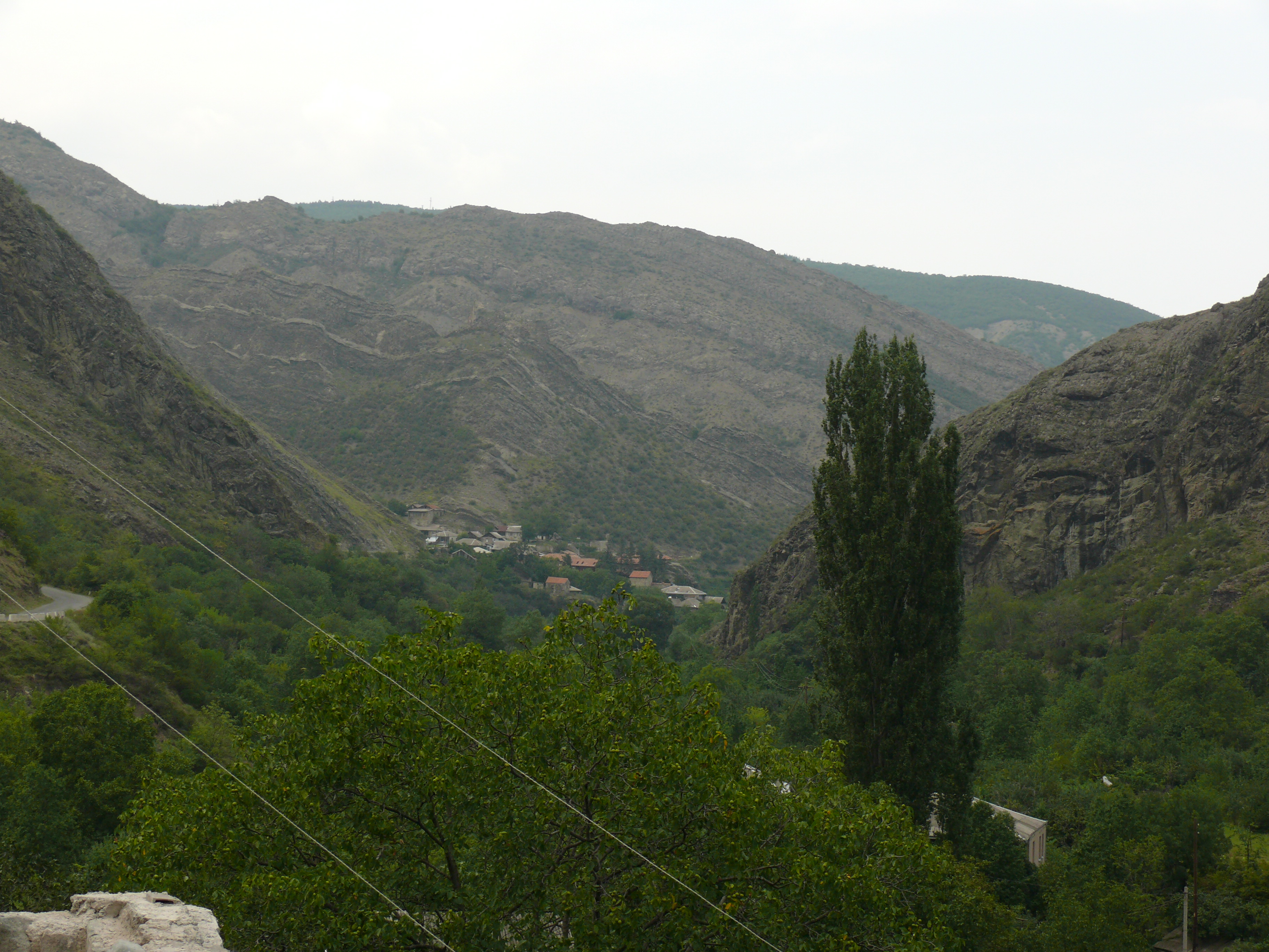 Valley of Ateni.